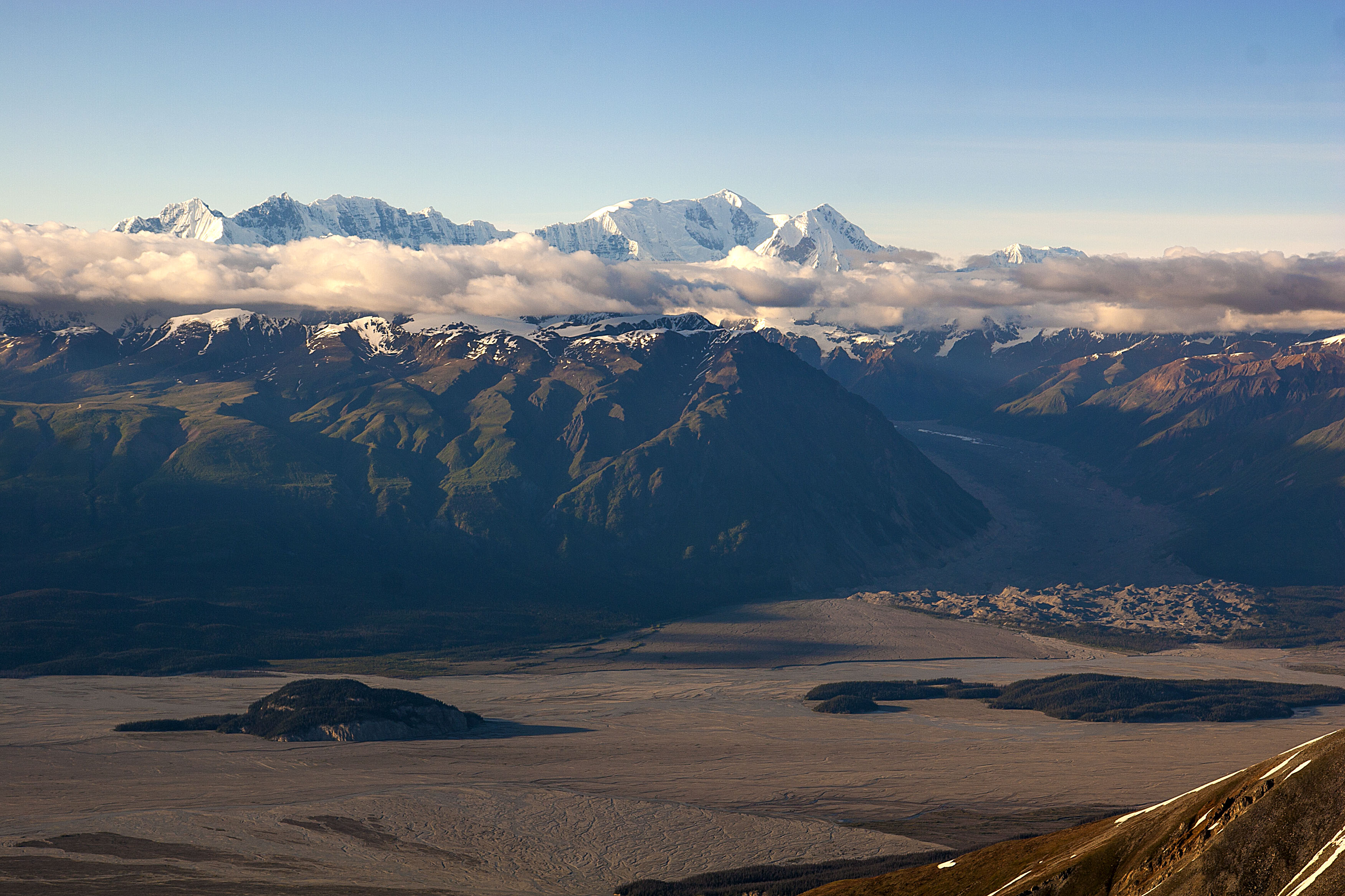 Chitina River, Mt Bona (5005m) & Hawkins Glacier, viewed from the South.